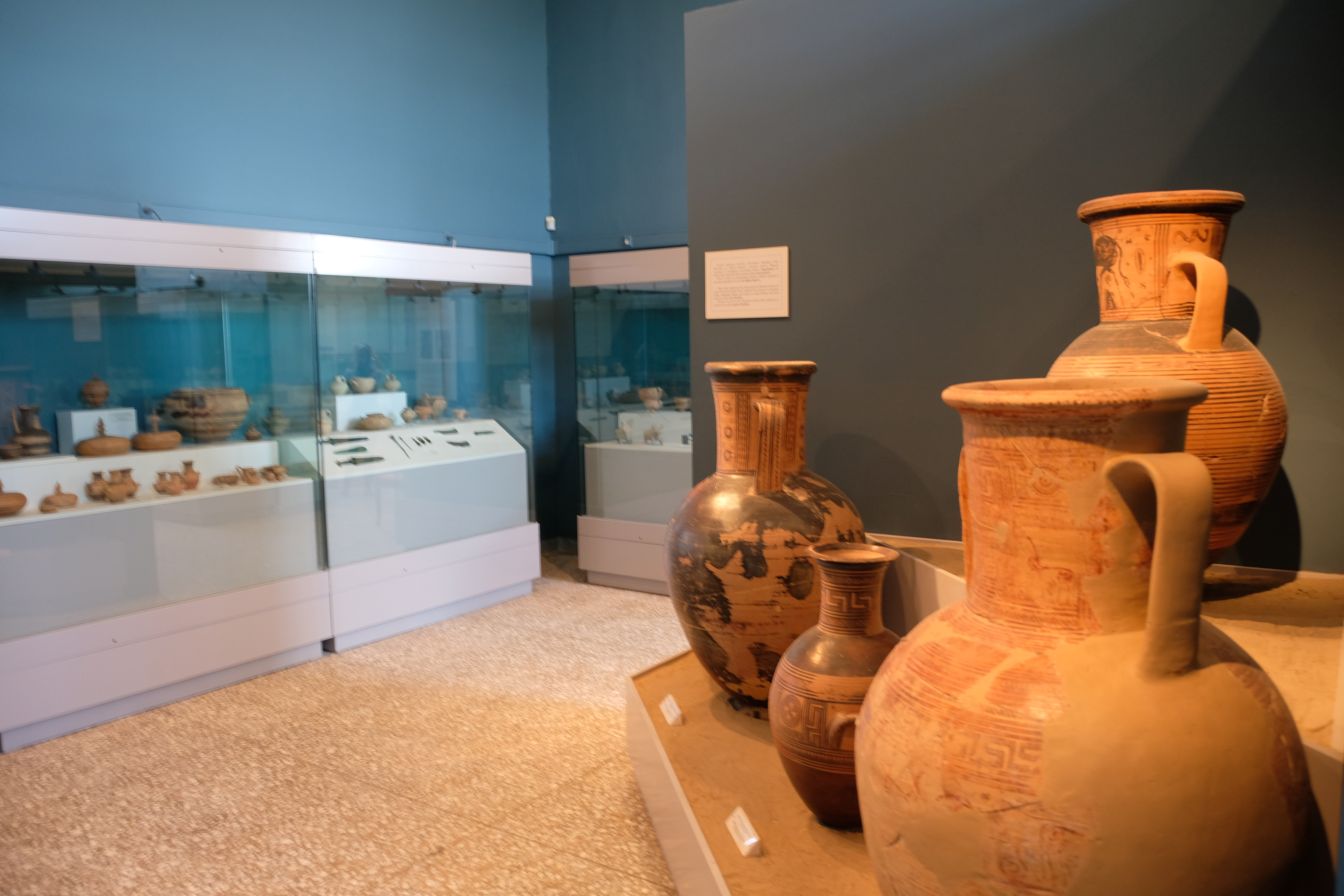 Room of Eleusis museum